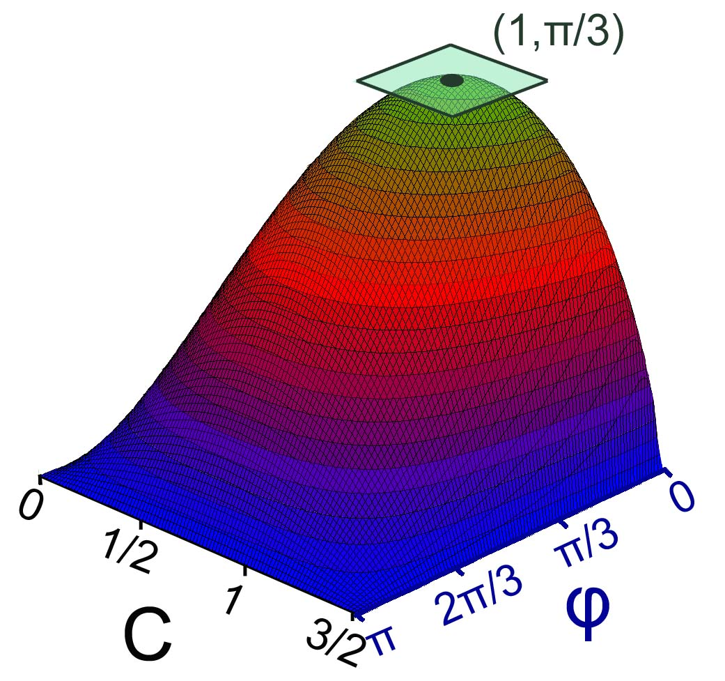 A continuous image of a compact space is compact. Illustration of the image of the triangles of constant perimeter. The function associates to the triangle the surface